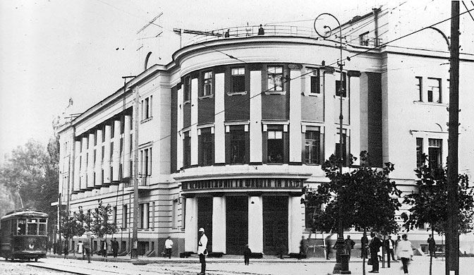 House of the Red Army and Navy (House of Officers) in Kiev (arcitect Joseph Karakis)